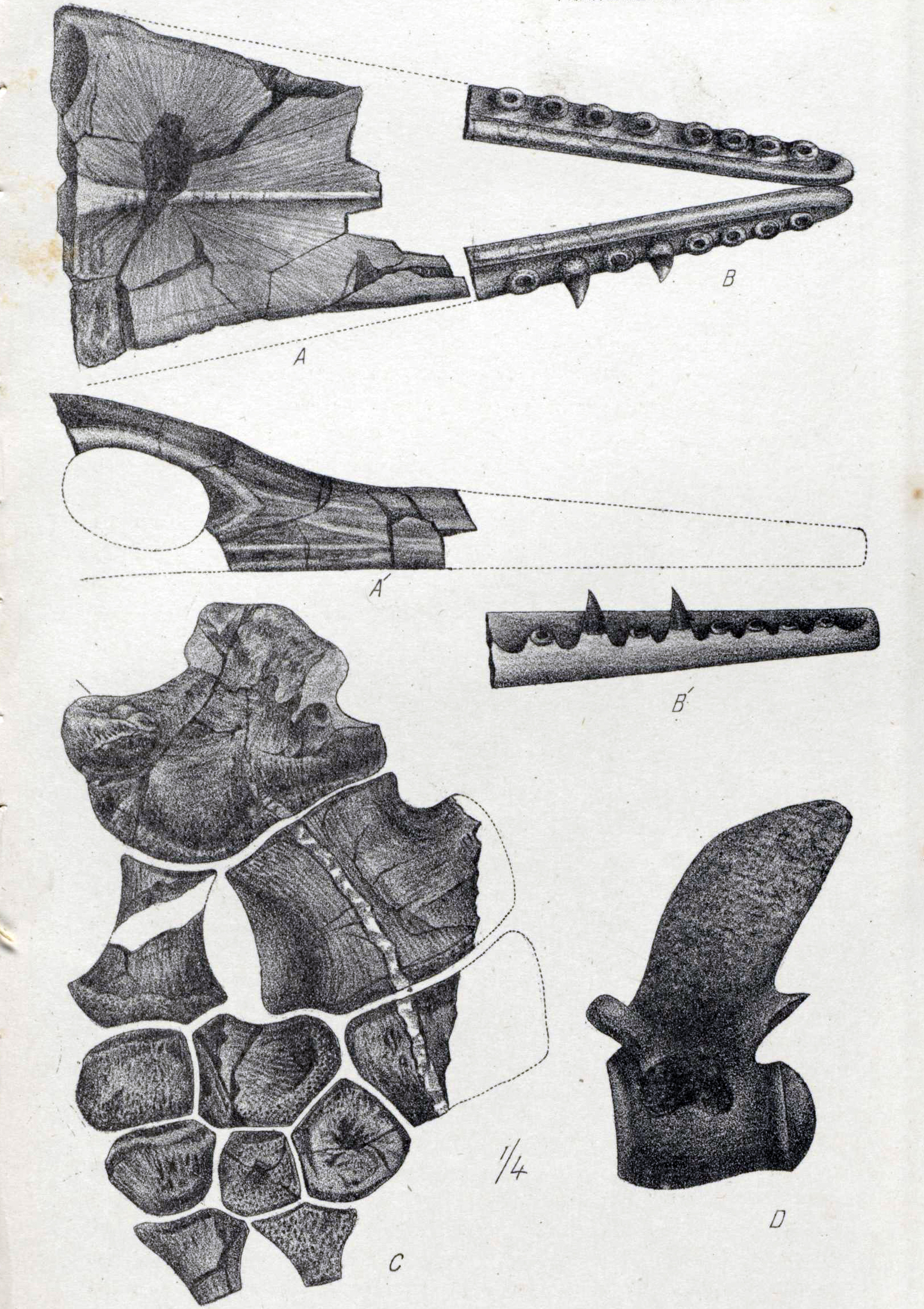 Figures "A" and "B" depicting skull and jaw material of Taniwhasaurus oweni, Plate 31. From Hector 1874.